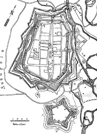 Plan of Fortification and Citadela of Košice in the end of 17th century